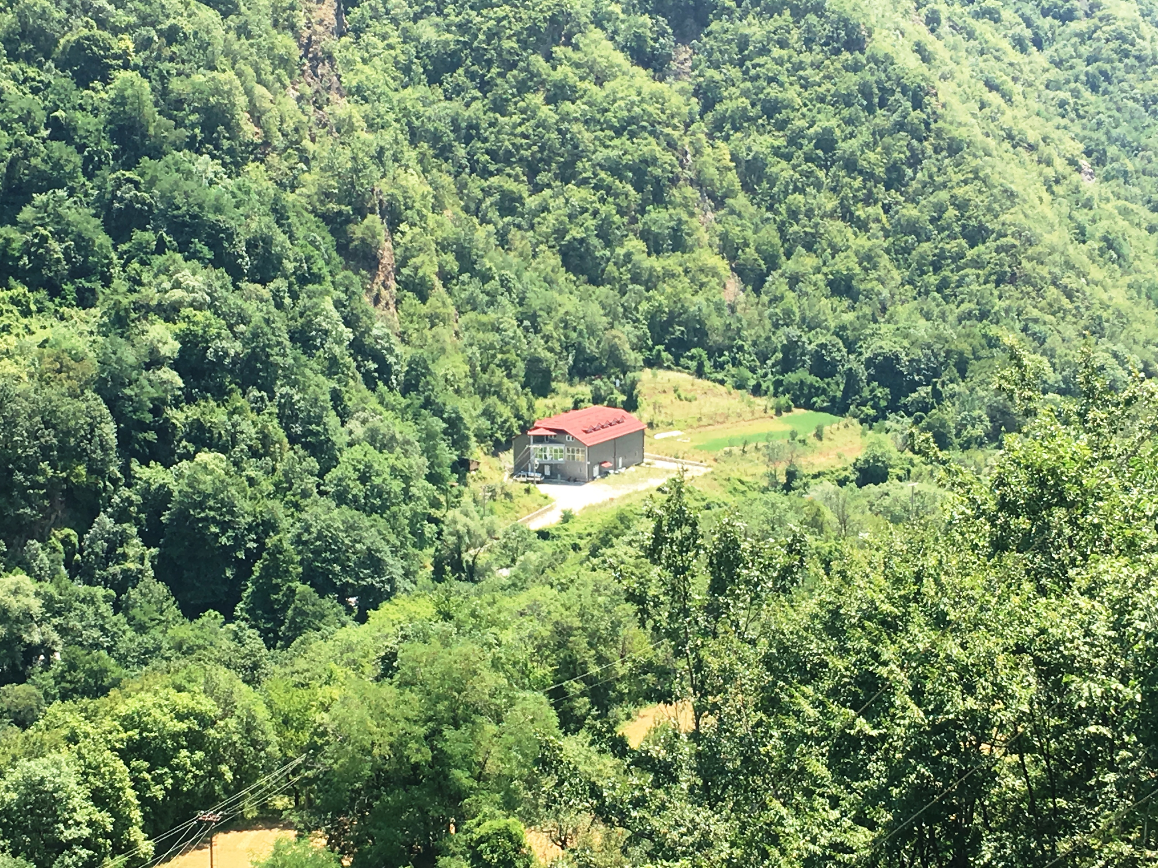 Production plant near the village of Boletin